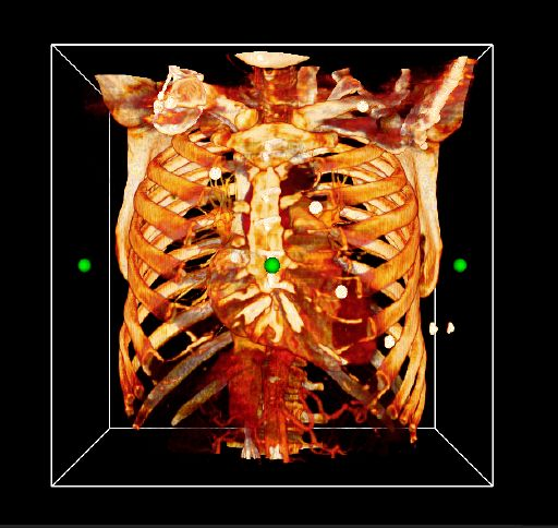 3D VR of a CT scan: orthogonal cropping frame. Generated by Kieran Maher using OsiriX. marz 04:07, 30 October 2006 (UTC)